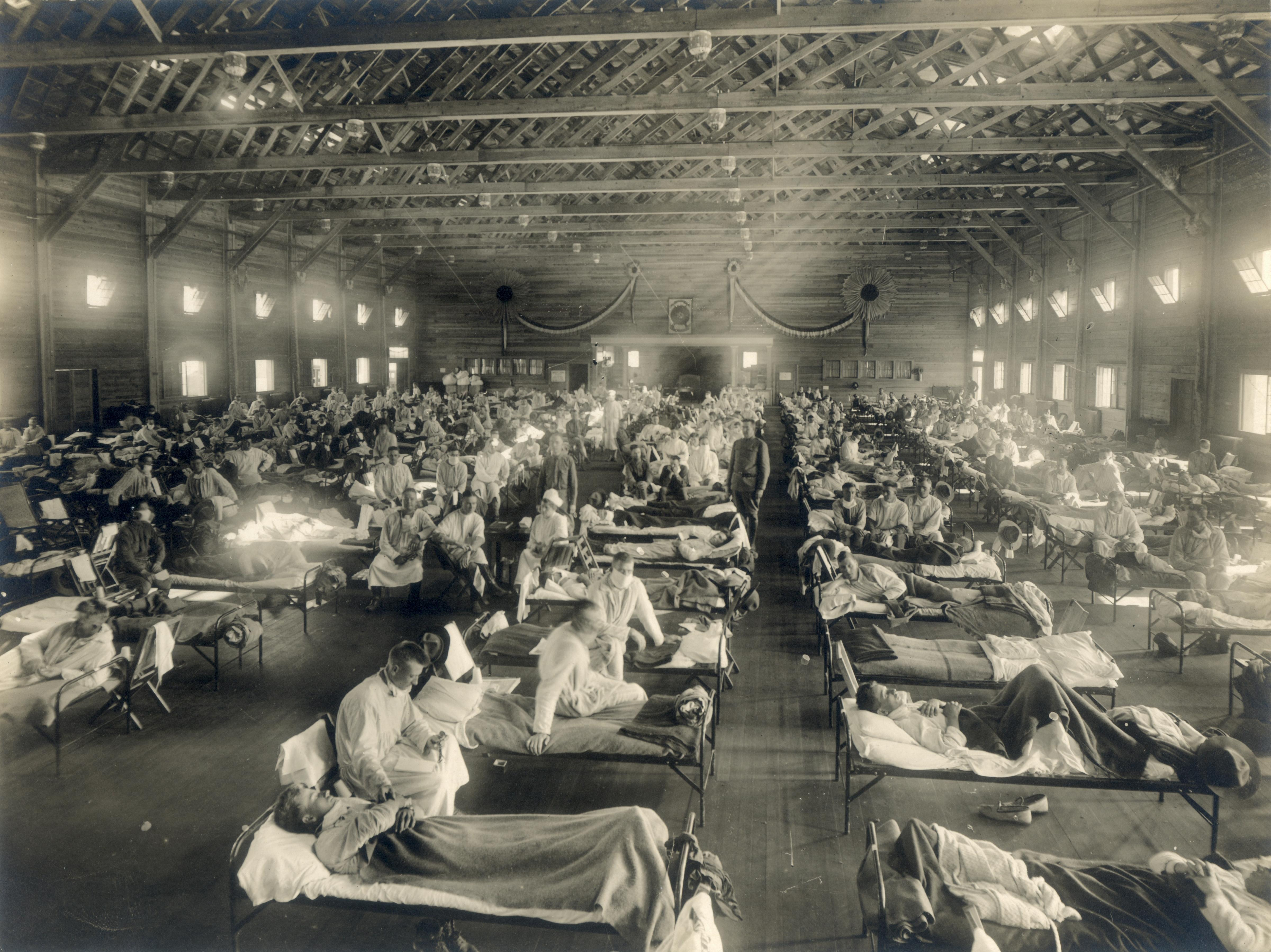 Emergency hospital during influenza epidemic, Camp Funston, Kansas. Emergency hospital during influenza epidemic (NCP 1603), National Museum of Health and Medicine. Description: Beds with patients in an emergency hospital in Camp Funston, Kansas, in the midst of the influenza epidemic. The flu struck while America was at war, and was transported across the Atlantic on troop ships. Date: circa 1918 Photo ID: NCP 1603 Source Collection: OHA 250: New Contributed Photographs Collection, Otis Historical Archives, National Museum of Health and Medicine. Rights: No known restrictions upon publication, physical copy retained by the National Museum of Health and Medicine. Publication and high resolution requests should be directed to NMHM ( This is our most-requested flu photograph. It may be on another or our Flickr pages.